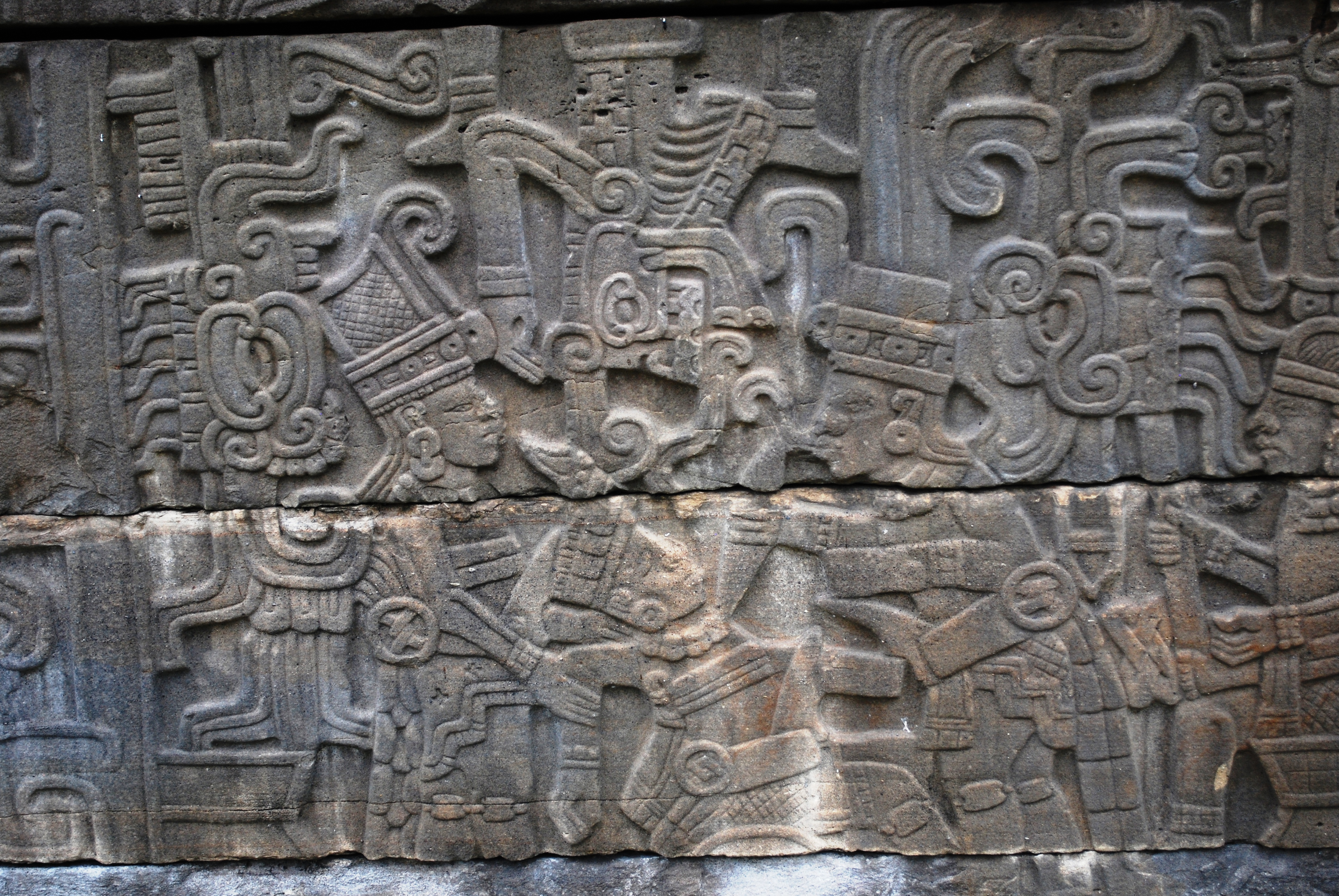 Close up of beheading on one of the panels of the South Ball Court at Tajin, Veracruz, Mexico